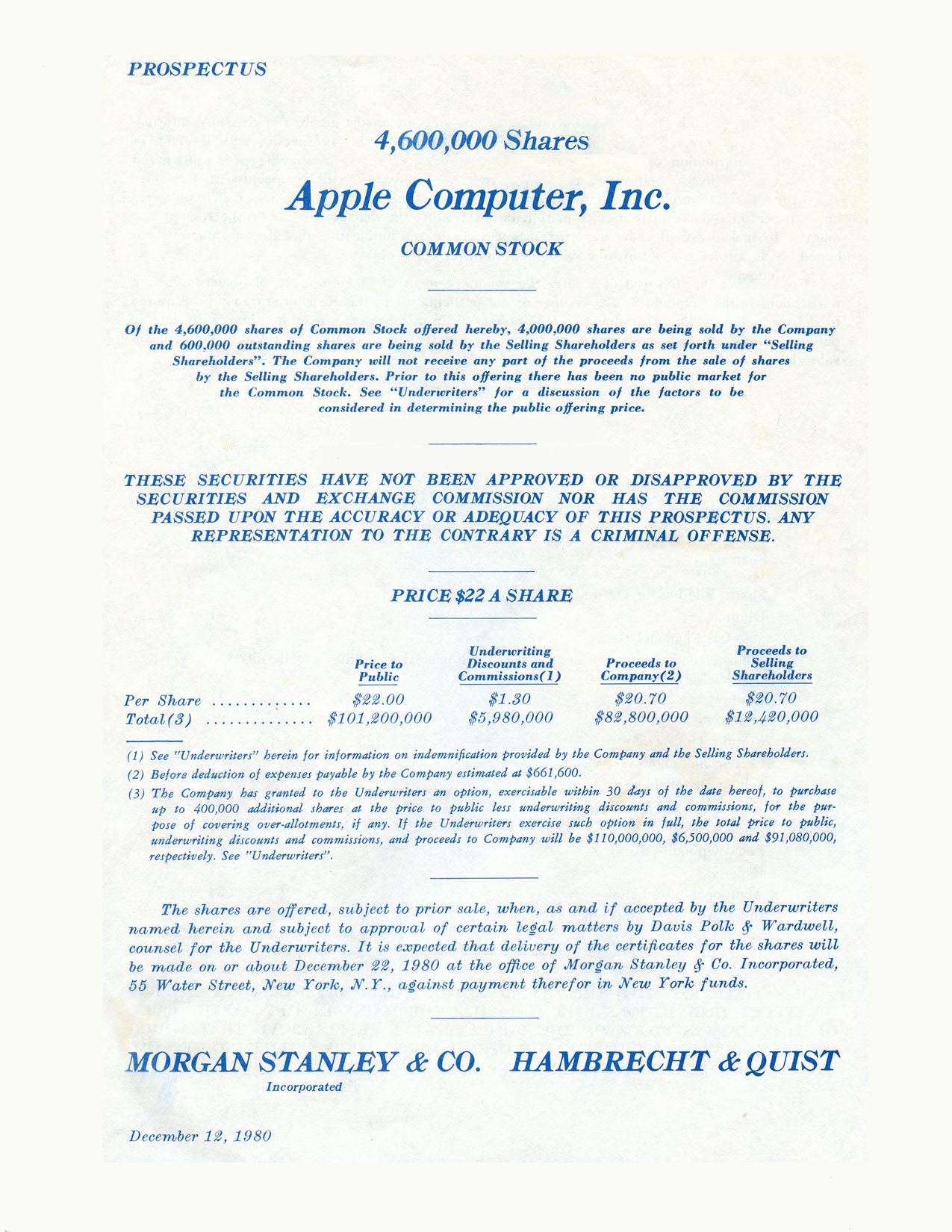 The Initial Public Offering (IPO) Prospectus for Apple Computer Inc. in December 1980. A total of 5 million shares were offered to the public for $22 each. The total outstanding shares after the offering were 54,215,332. The company’s officers, directors and major shareholders held 32 million shares and the rest were held by the company for stock options plans and other needs. Apple's valuation after the IPO was over $1 billion. (54 million shares at $22.)